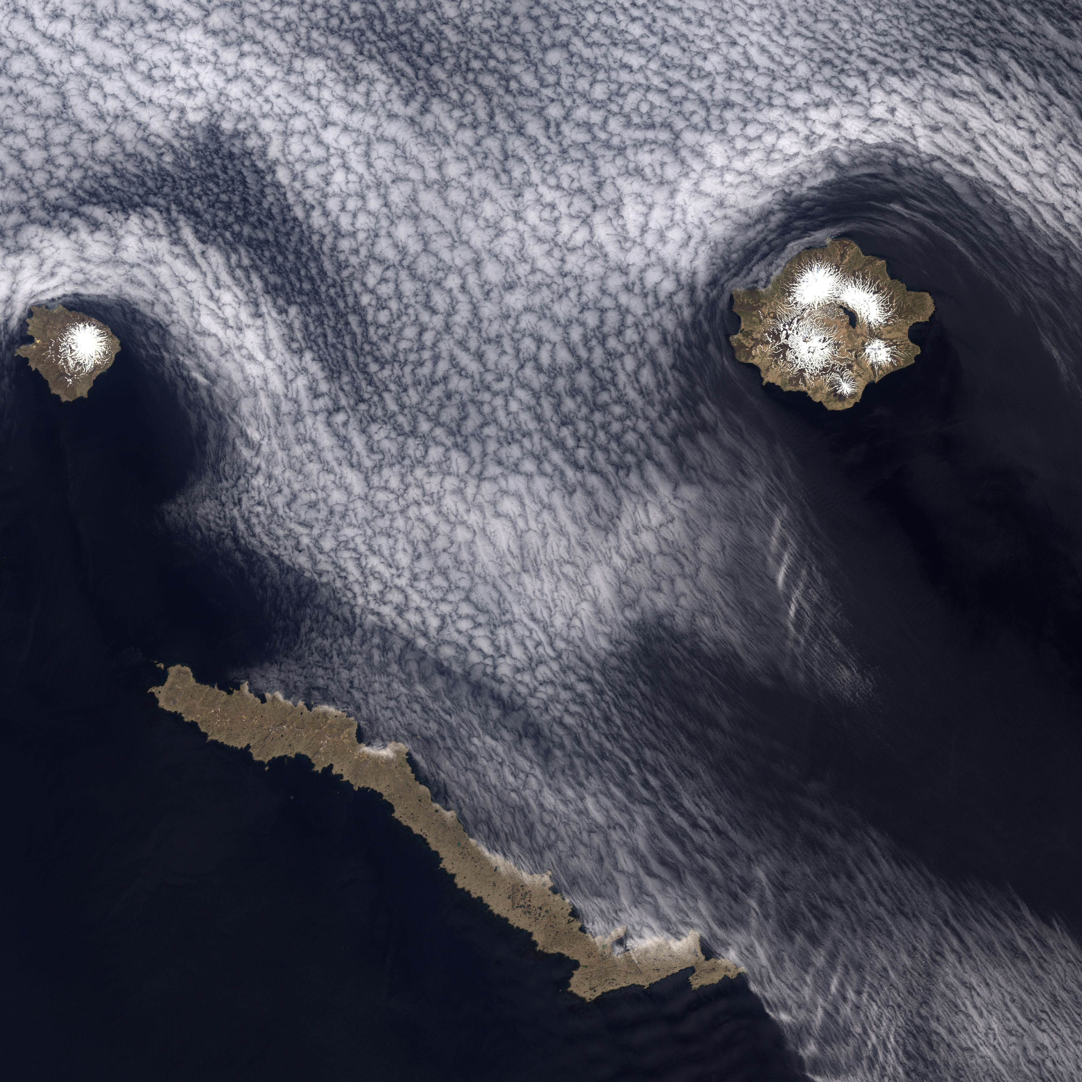 Landsat 7 satellite picture of Semisopochnoi Island (right), Little Sitkin Island (left) and Amchitka Island (bottom), Aleutian Islands, Alaska